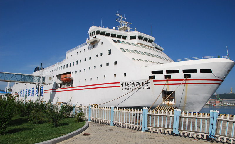 Bohai Train Ferry - ZHONG TIE BO HAI 1 HAO IMO number: 9383390 Callsign: BBHE